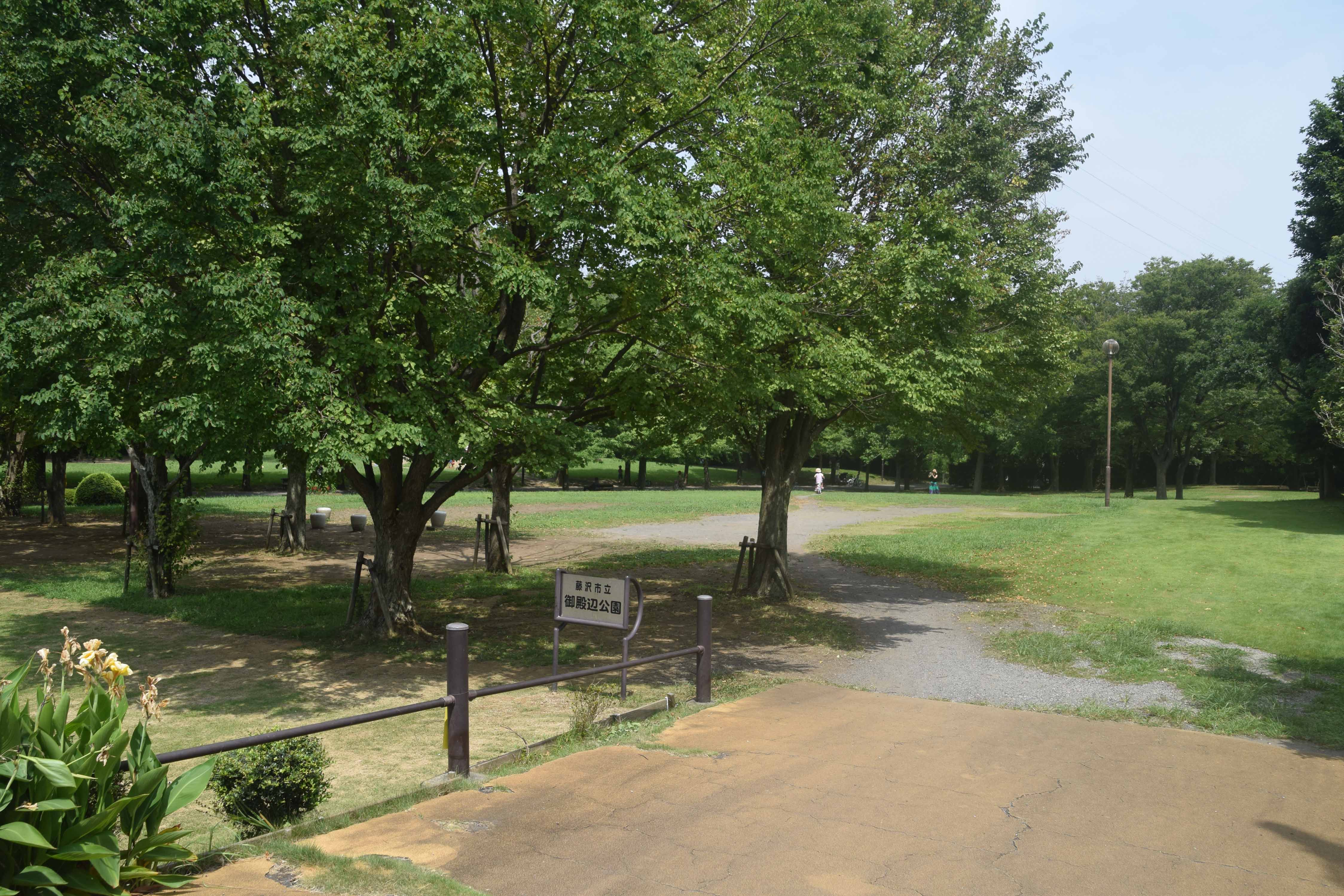 One of three entrances to Gotenbe Park, Fujisawa, Kanagawa